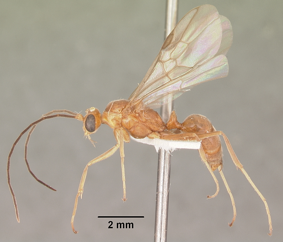 Profile view of ant Odontomachus brunneus specimen casent0104169.